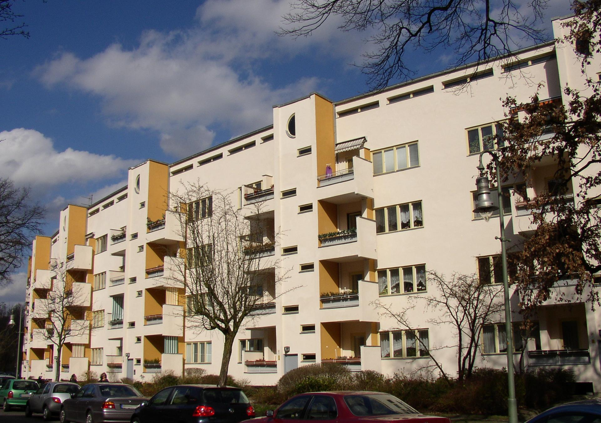 Building by Hans Scharoun in „Großsiedlung Siemensstadt“ in Berlin-Siemensstadt, Germany